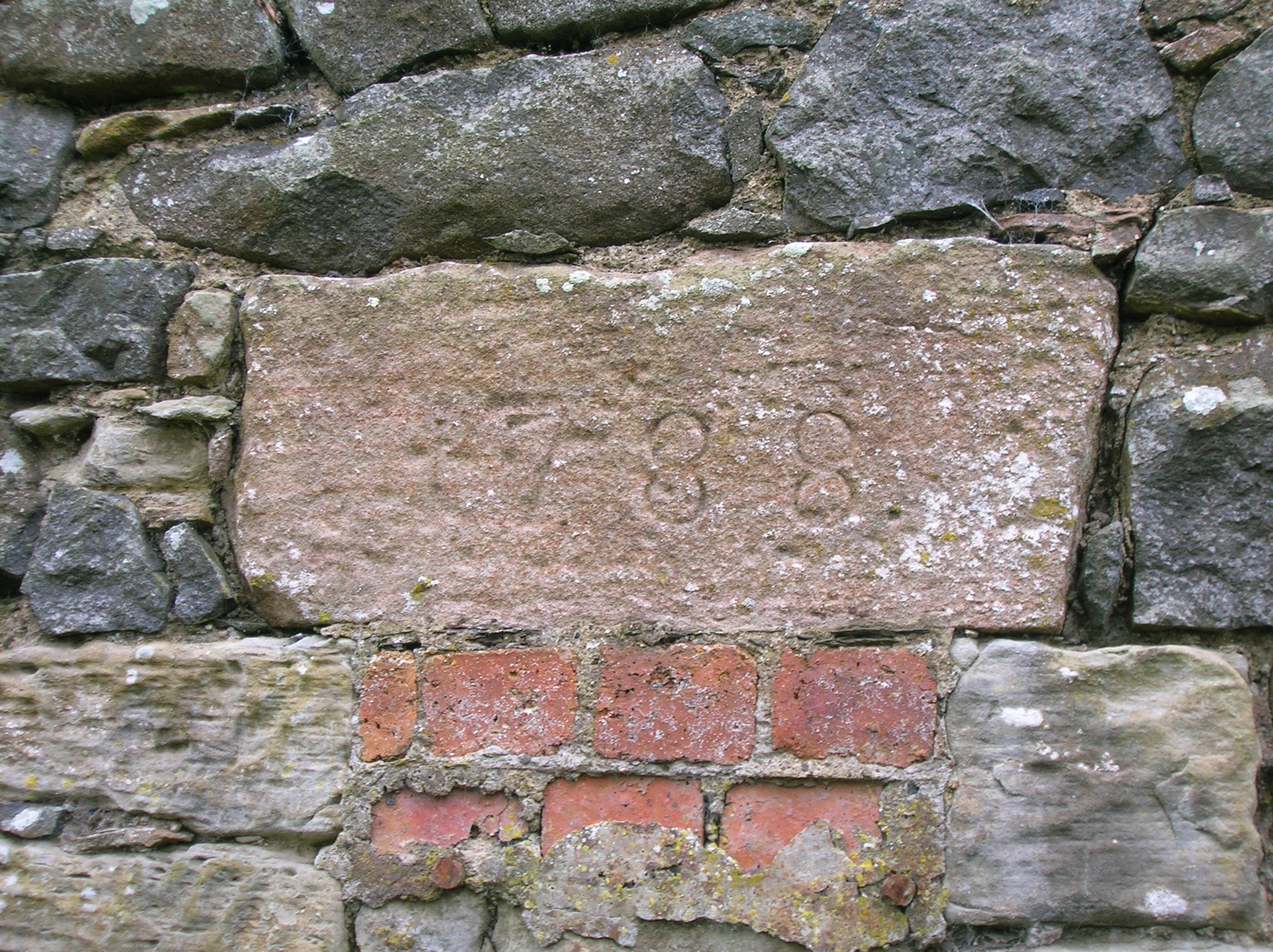 Datestone at Millmannoch, East Ayrshire, Scotland.